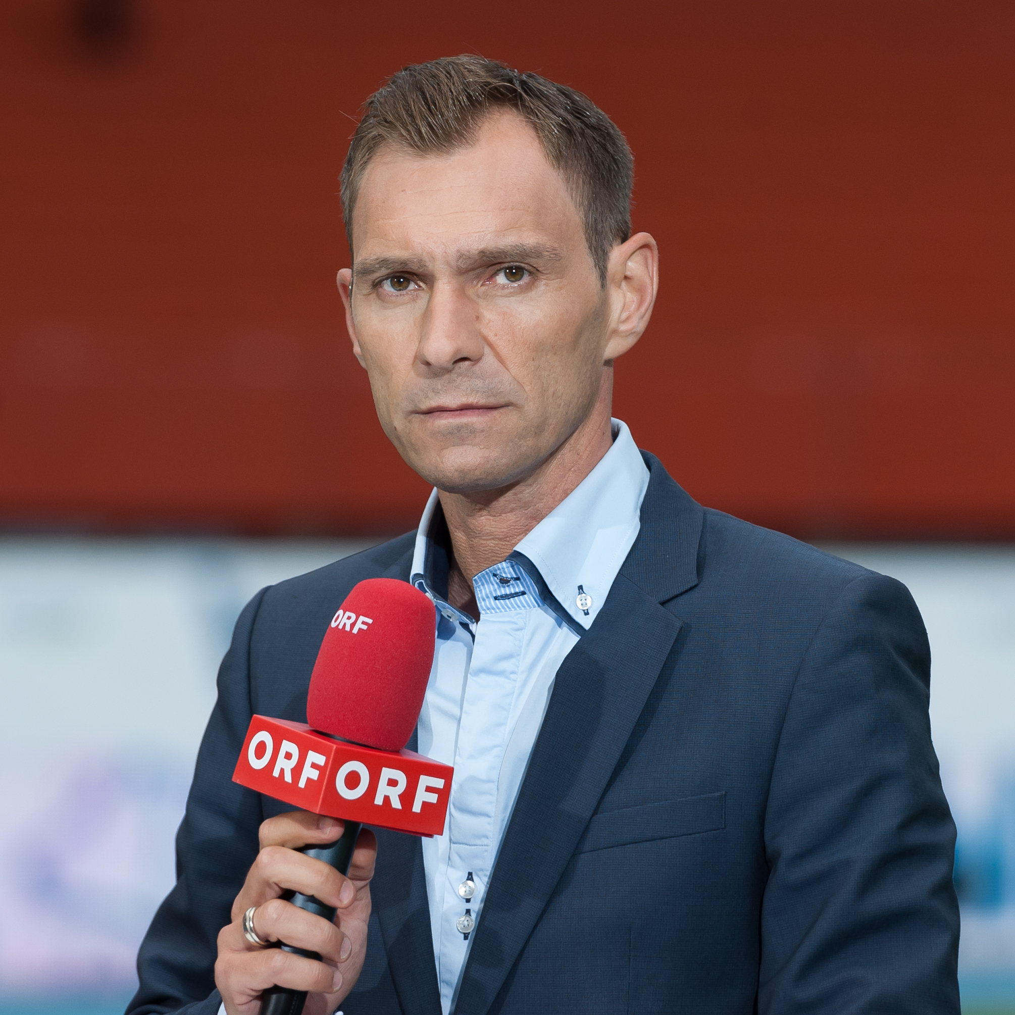 UEFA Europa League - FK Austria Wien vs FK Kukesi, 2016-07-14.